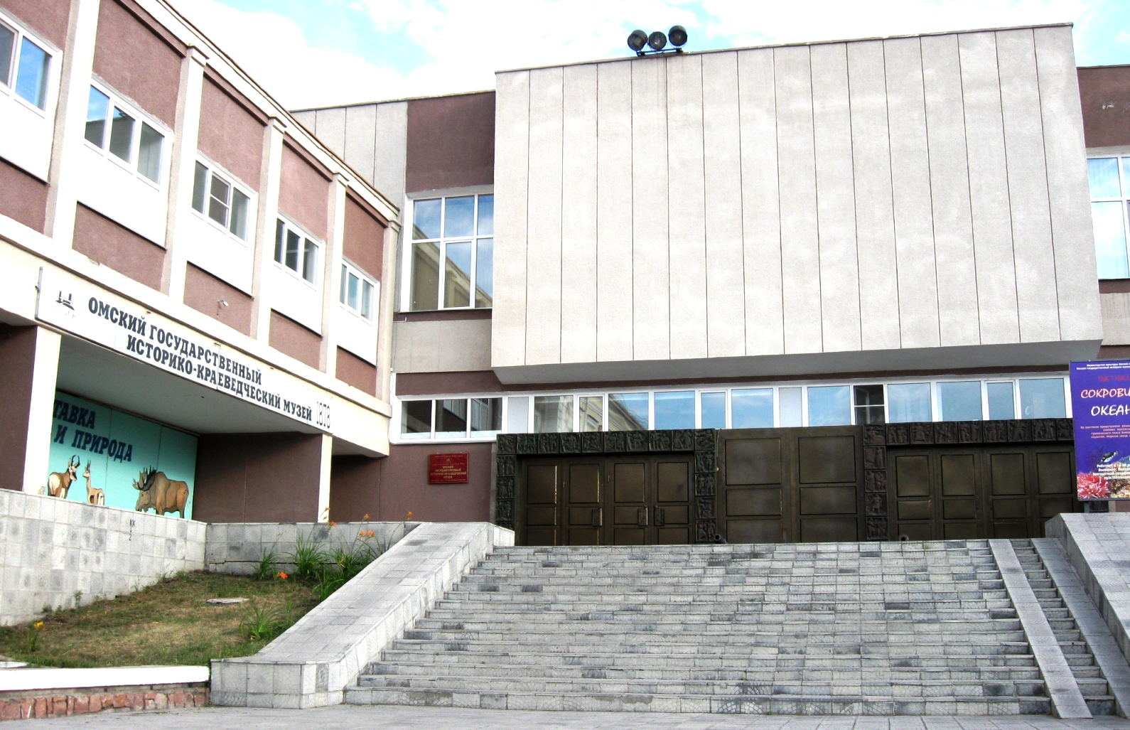 Омский государственный объединенный исторический и литературный музей